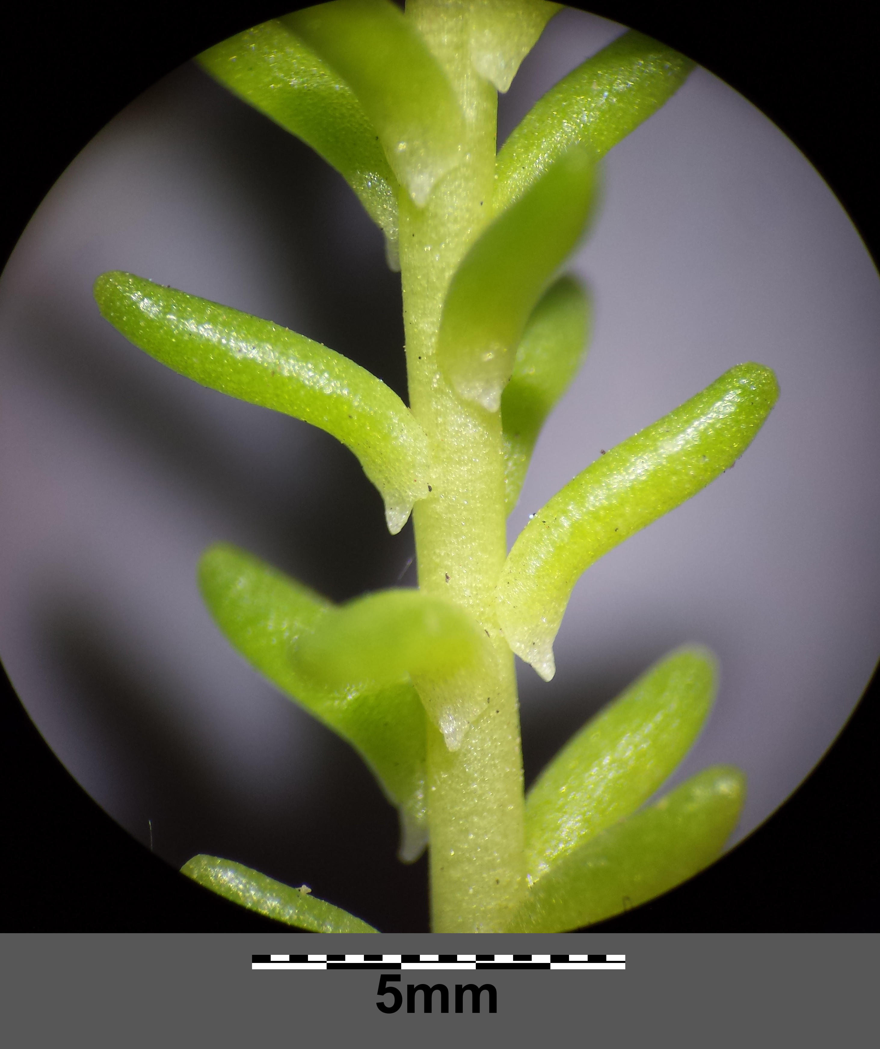 Stipe with leaves Taxonym: Sedum sexangulare ss Fischer et al. EfÖLS 2008 ISBN 978-3-85474-187-9 Location: Neue Donau, Vienna-Floridsdorf - ca. 160 m a.s.l. Habitat: crest